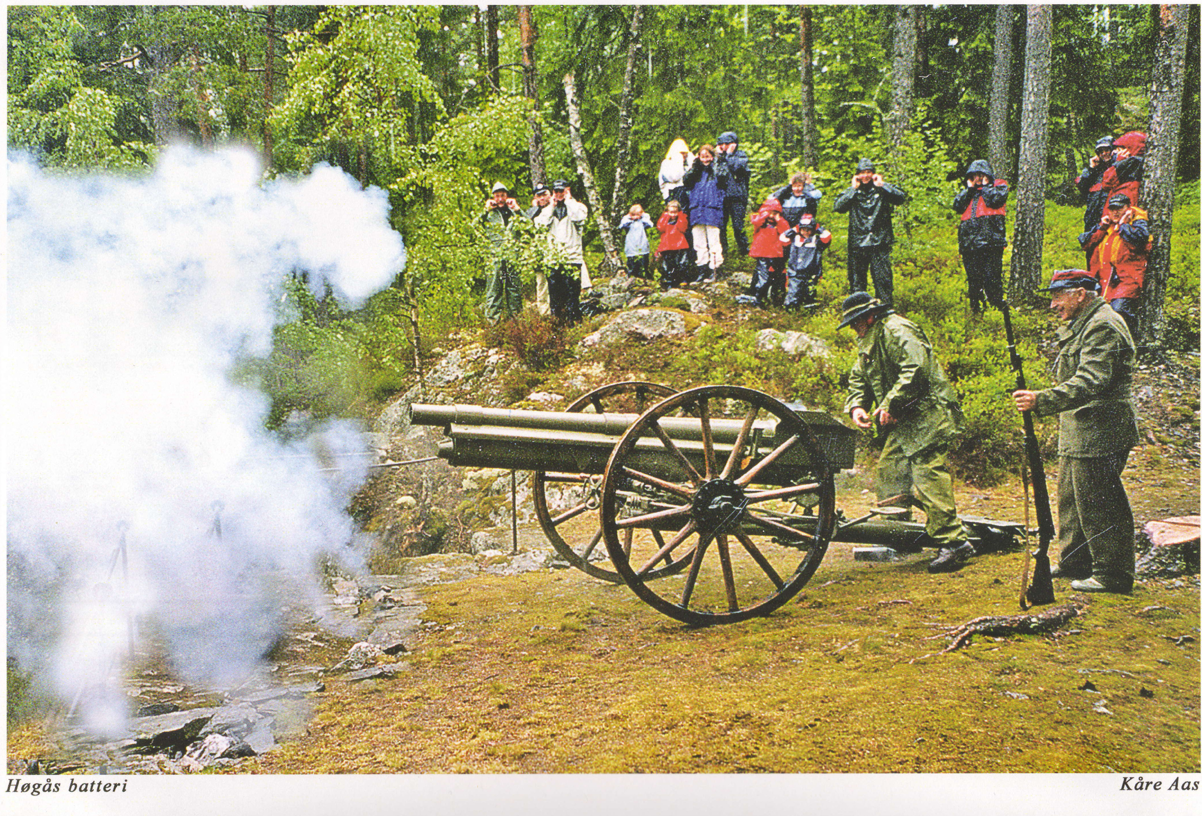 100-year salute at Hoegaas battery 2010